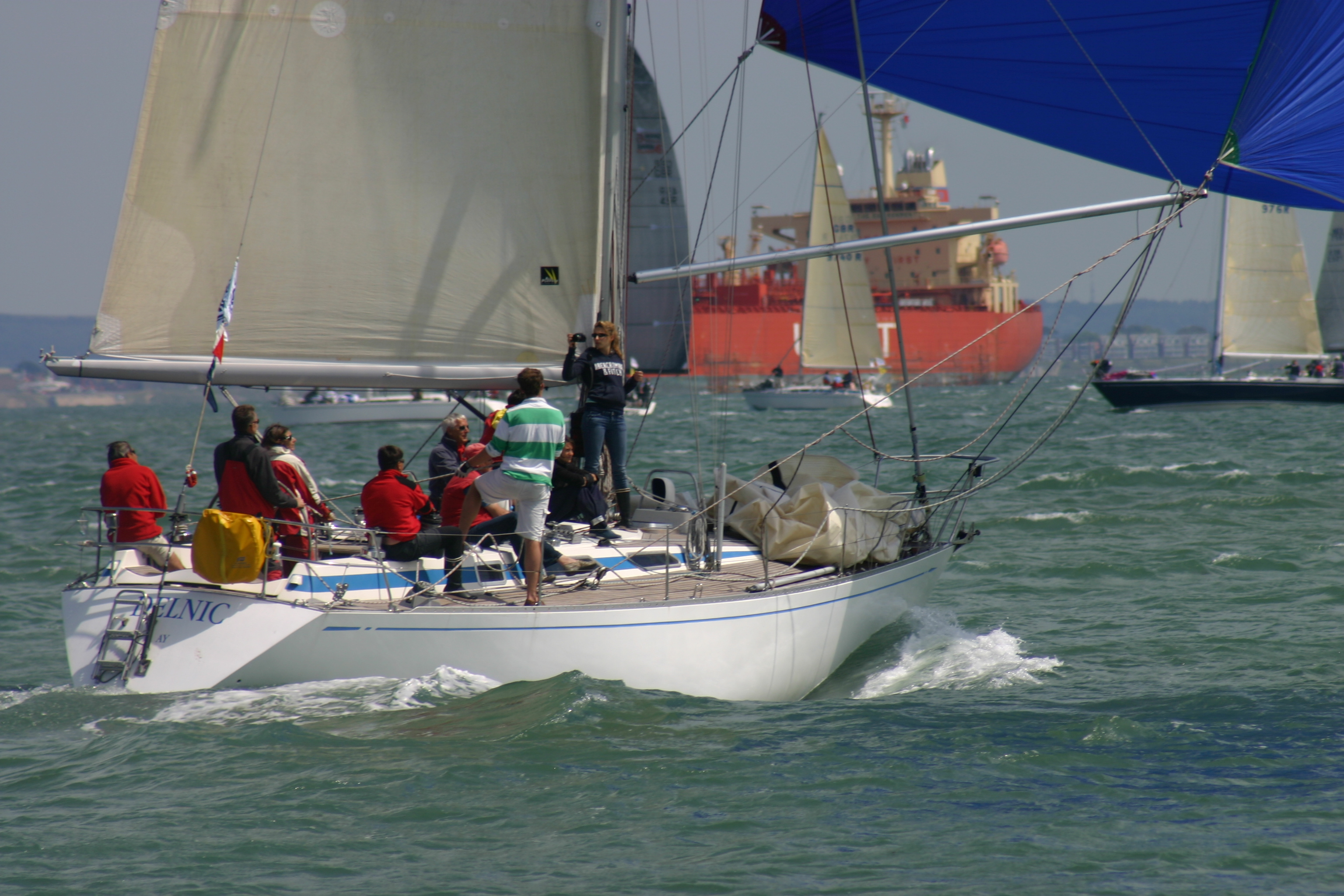 Swan 391 - Delnic - FRA 9210 at the 2011 Swan Europeans in Cowes (GBR) held by the Royal Yacht Squadron